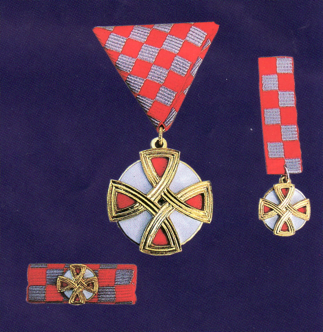 Badge and Ribbon of Order of Croatian Wattle